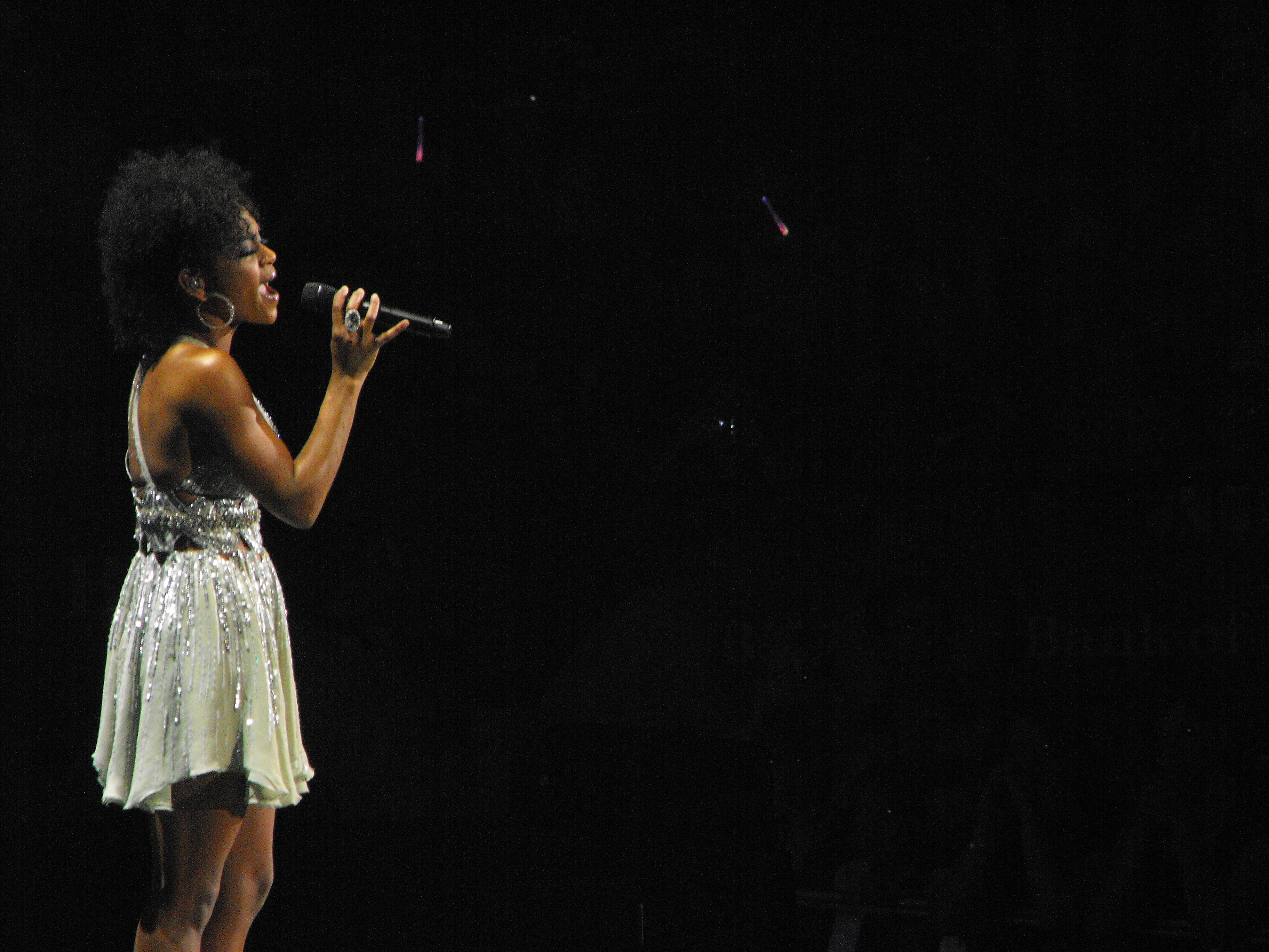 American singer Syesha Mercado performing during American Idol's season 7 tour.